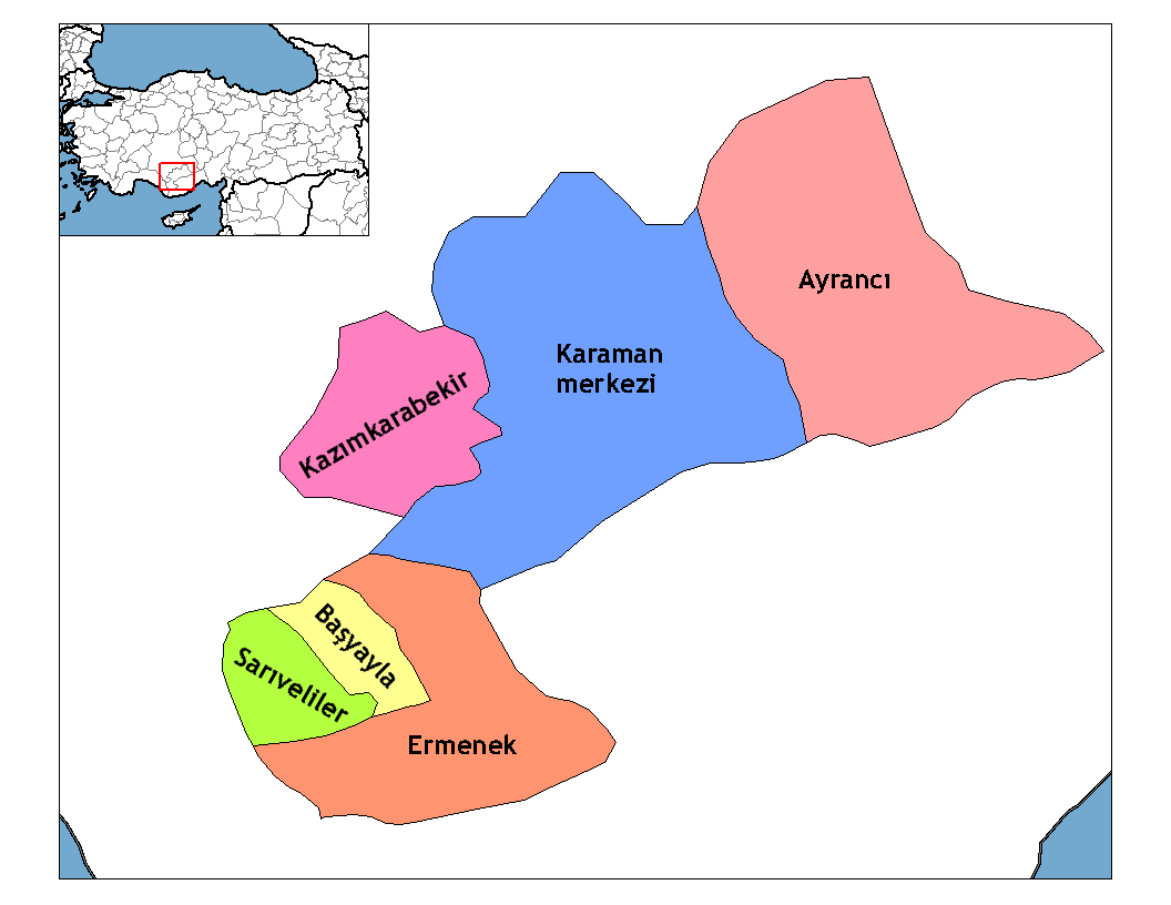 Map of the districts of Karaman province in Turkey. Created by Rarelibra 21:58, 1 December 2006 (UTC) for public domain use, using MapInfo Professional v8.5 and various mapping resources. Edited by One Homo Sapiens Corrected text where İ,Ş,ı,ğ,or ş occurs in name. Source: [statoids-com]. Increased font size.